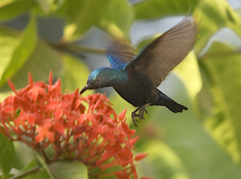 Purple Sunbird during winter in Nagpur, India